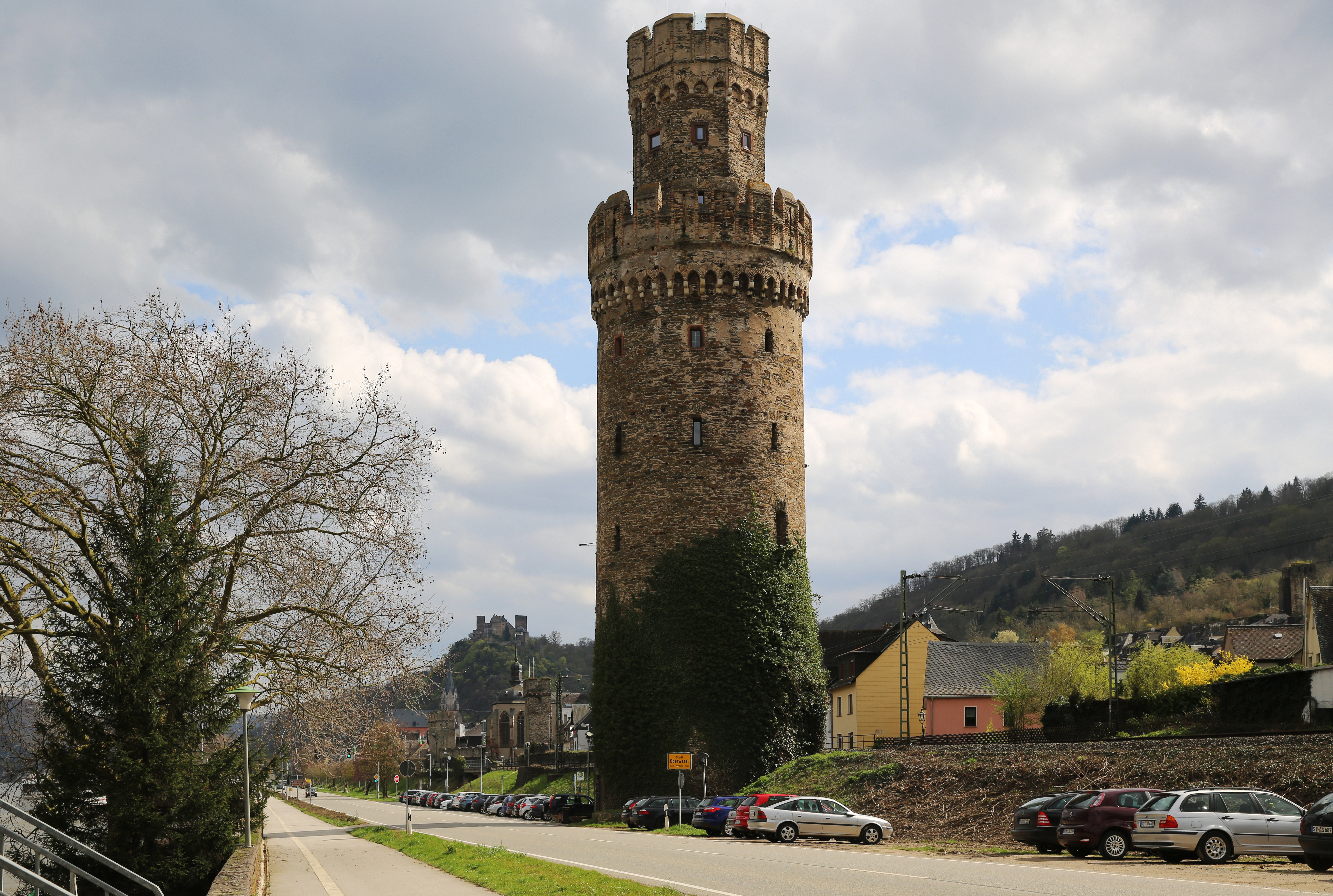 Riverside bypass roadof Oberwesel, Rhine Valley/Germany